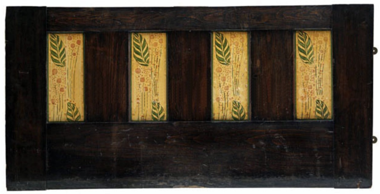 This painted panel by George Walton, is a surviving remnant of his decorative designs such as tiles and painted plaster chunks for Miss Cranston's Argyle Street Tea rooms at 110-114 Argyle Street. The panel would have been part of the decorative scheme of the large Luncheon Room.